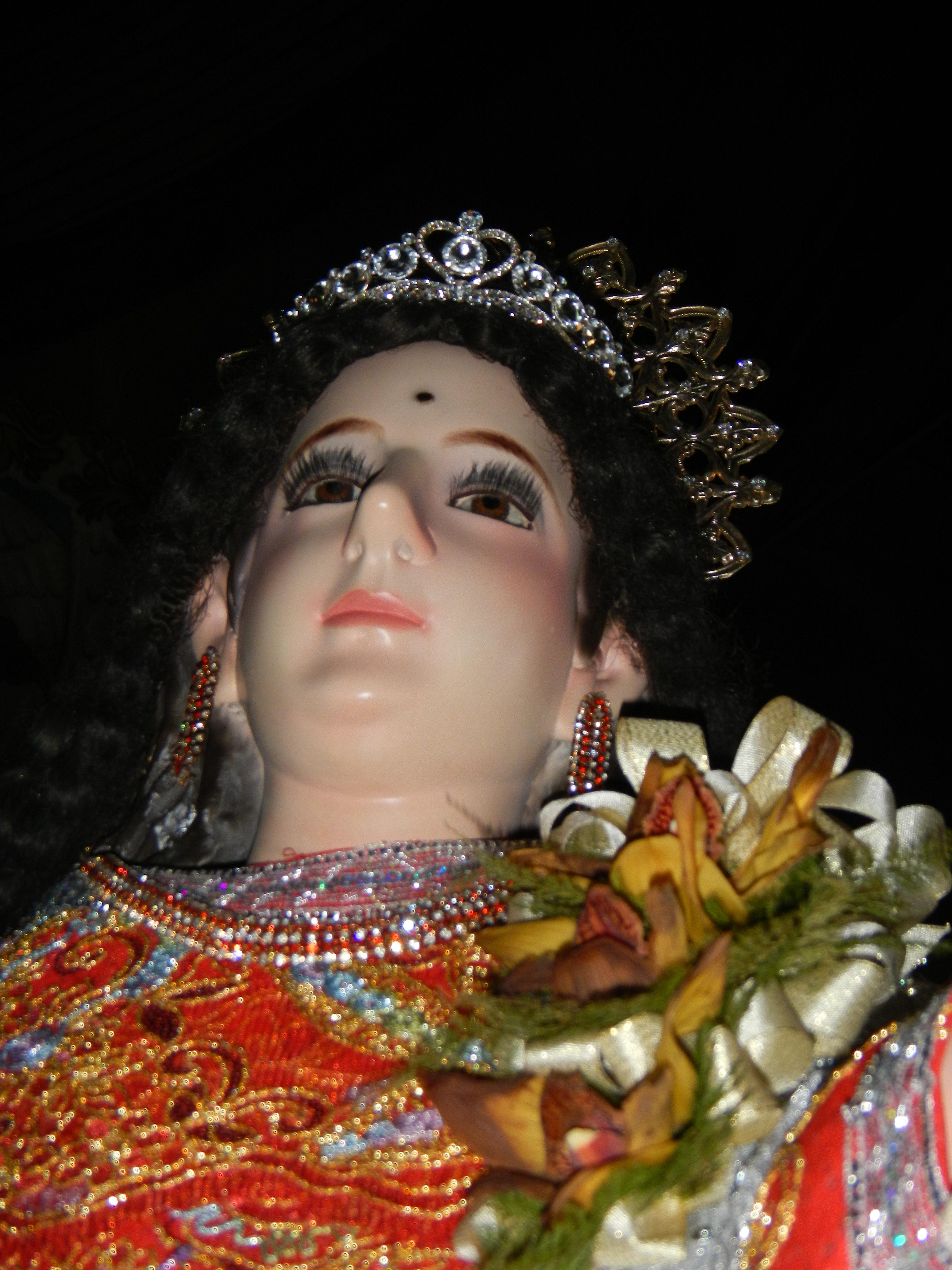 Statue of St. Mary Magdalene in the St. Mary Magdalene Church of Kawit (Simbahan ng Parokya ni Santa Maria Magdalena). The 18th century Spanish colonial parish church of Kawit is in Brgy. Poblacion, Cavite Province, Luzon, the Philippines. Credits I hereby certify that these photos are exclusive for Commons and Wikipedia never uploaded in any Internet or any site, and for the public domain without any condition. Since 2010, I've shared to Commons more than 28,000 photos. Today, 2013-05-15 at 3:33 p.m., DSCN 1329, File:Kawit,Cavitejf1448 03.JPG raw, unedited, and Original it’s shared to all. Coordinates: 14°26'41"N 120°54'12"E